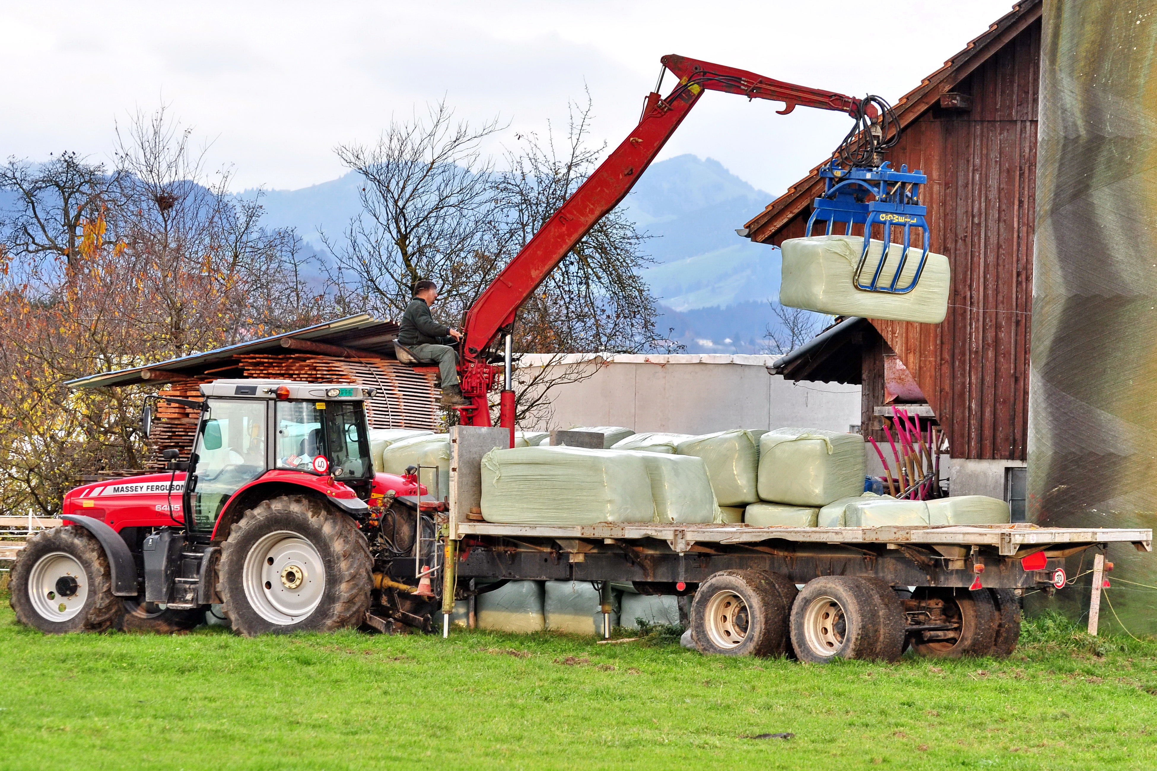 Massey Ferguson 6465, Busskirch in Jona (Switzerland) on Obersee (upper Lake Zürich) shore